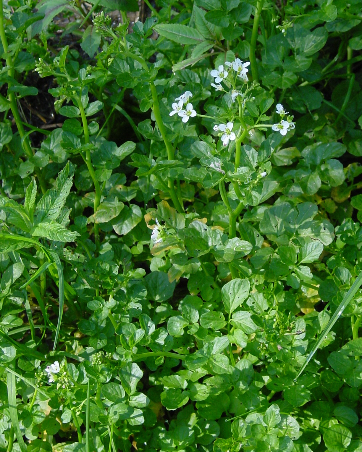 Cardamine amara, large bittercress, flowering plant